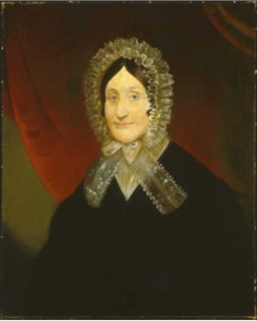 Laleah Peyton (Johnston) Almon (1789-1869)d, Halifax, Nova Scotia